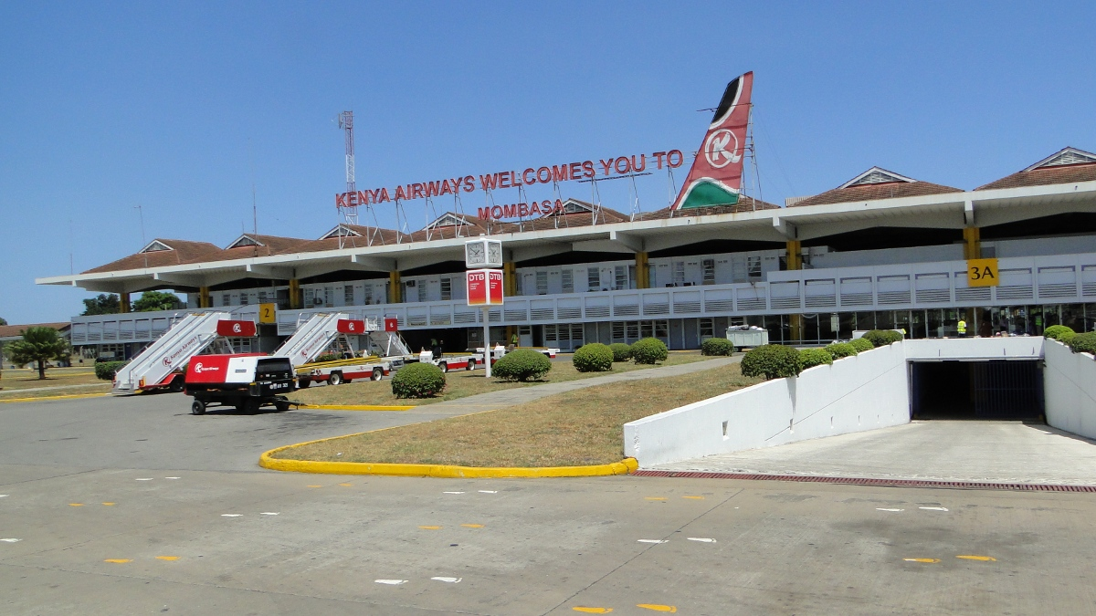 Frontal view of Moi International Airport in 2010